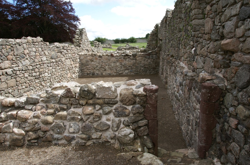 Deer Abbey, Old Deer, Aberdeenshire, Scotland. Within the southern wing: from kitchen looking towards the refectory.